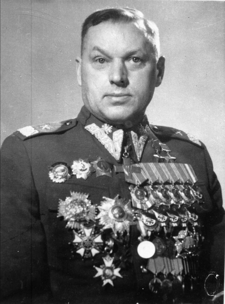 Poland's Minister of National Defense, Marshal of Poland K.K. Rokossovsky